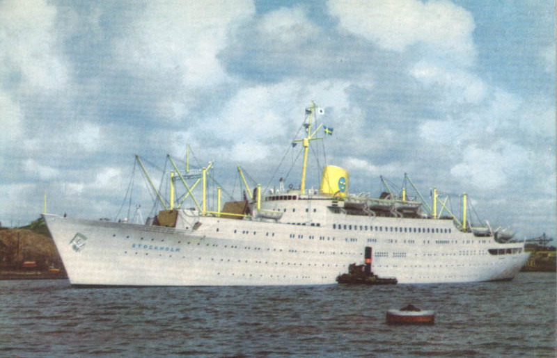 The MN Stockholm